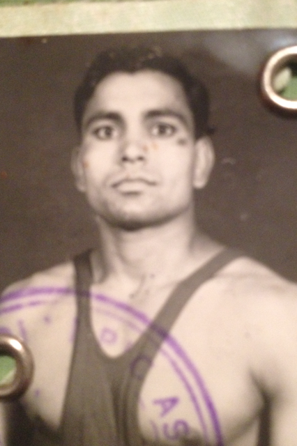 Mohammad Din; Pakistan Wrestling Champion and Olympic competitor